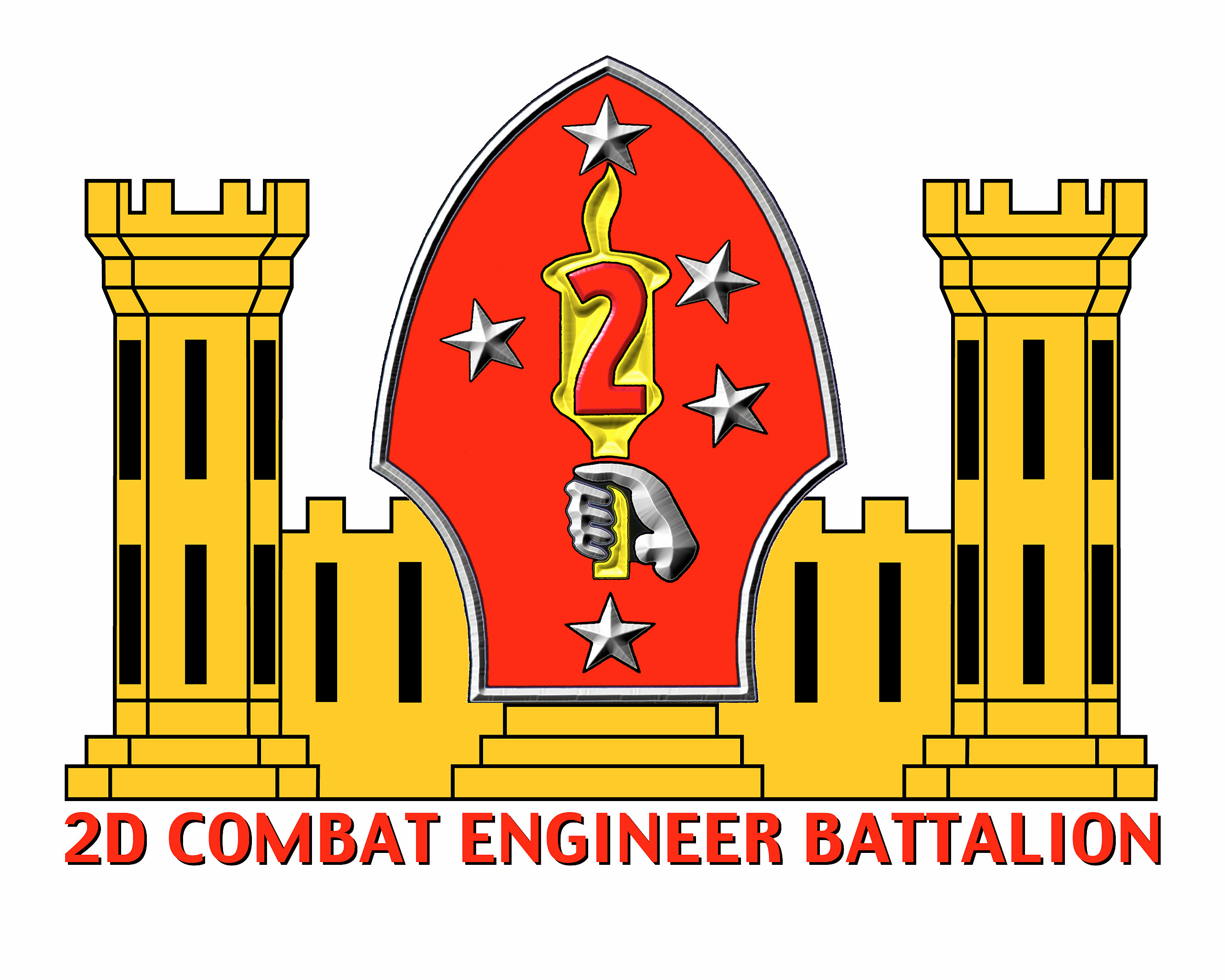 From the Depart of Defense image search website - Defense Visual Information Center. Picture comes up if you search for 2nd Combat Engineer Battalion ID: DM-SD-05-12376 Service Depicted: Marines Official logo 2nd Combat Engineer Battalion. Location: CAMP LEJEUNE, NORTH CAROLINA (NC) UNITED STATES OF AMERICA (USA) Date Shot: 1 Jan 2005